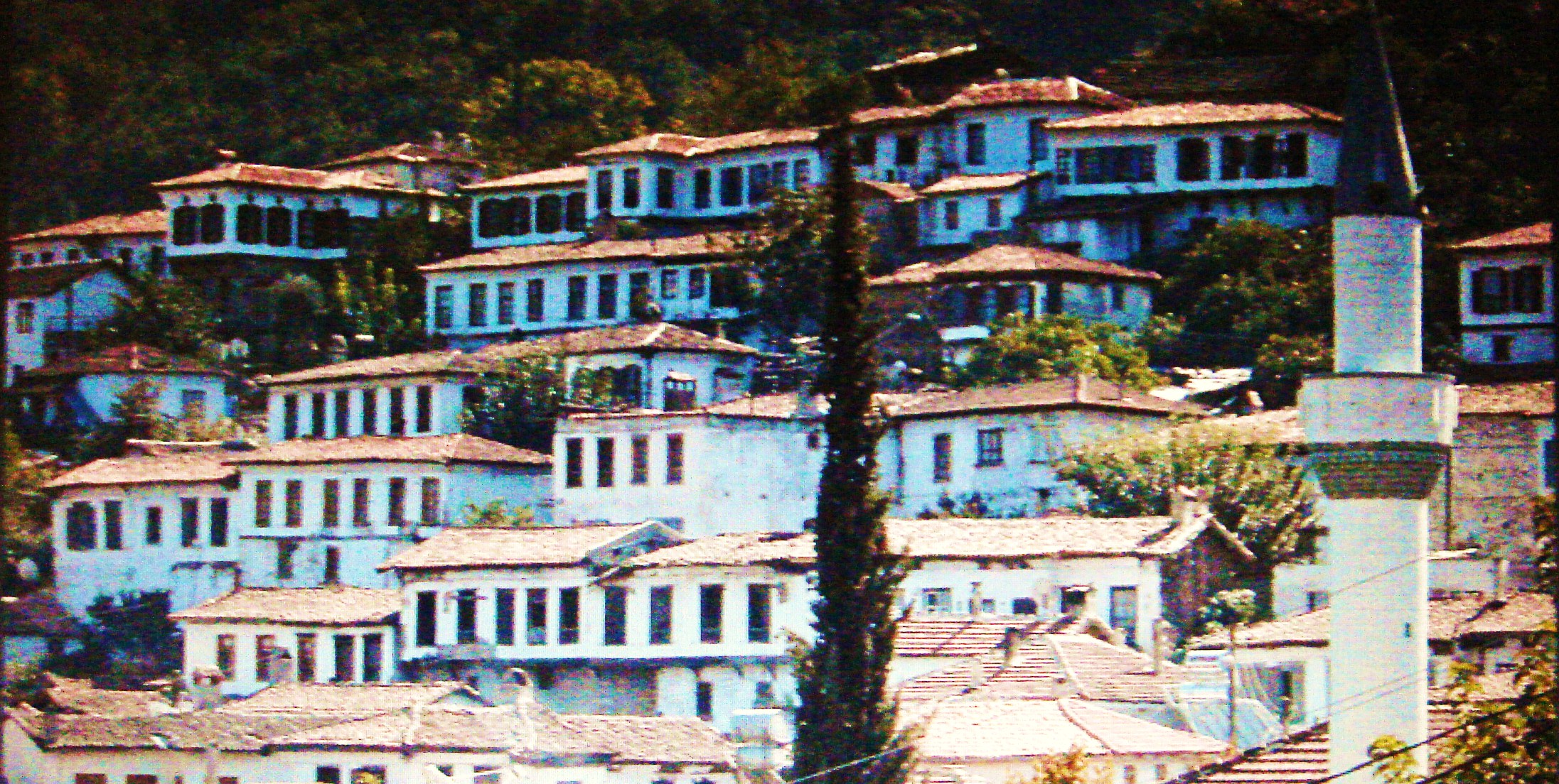 a view of Sirince